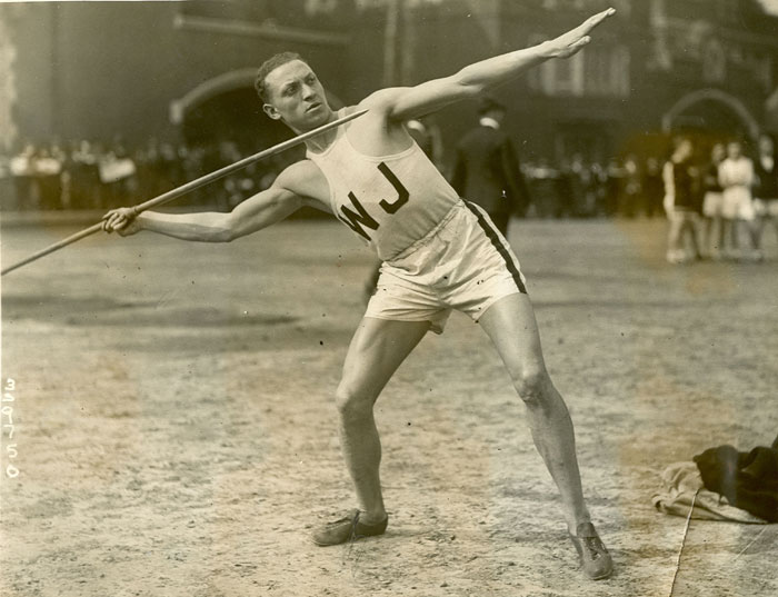 Image of Charles Pruner West